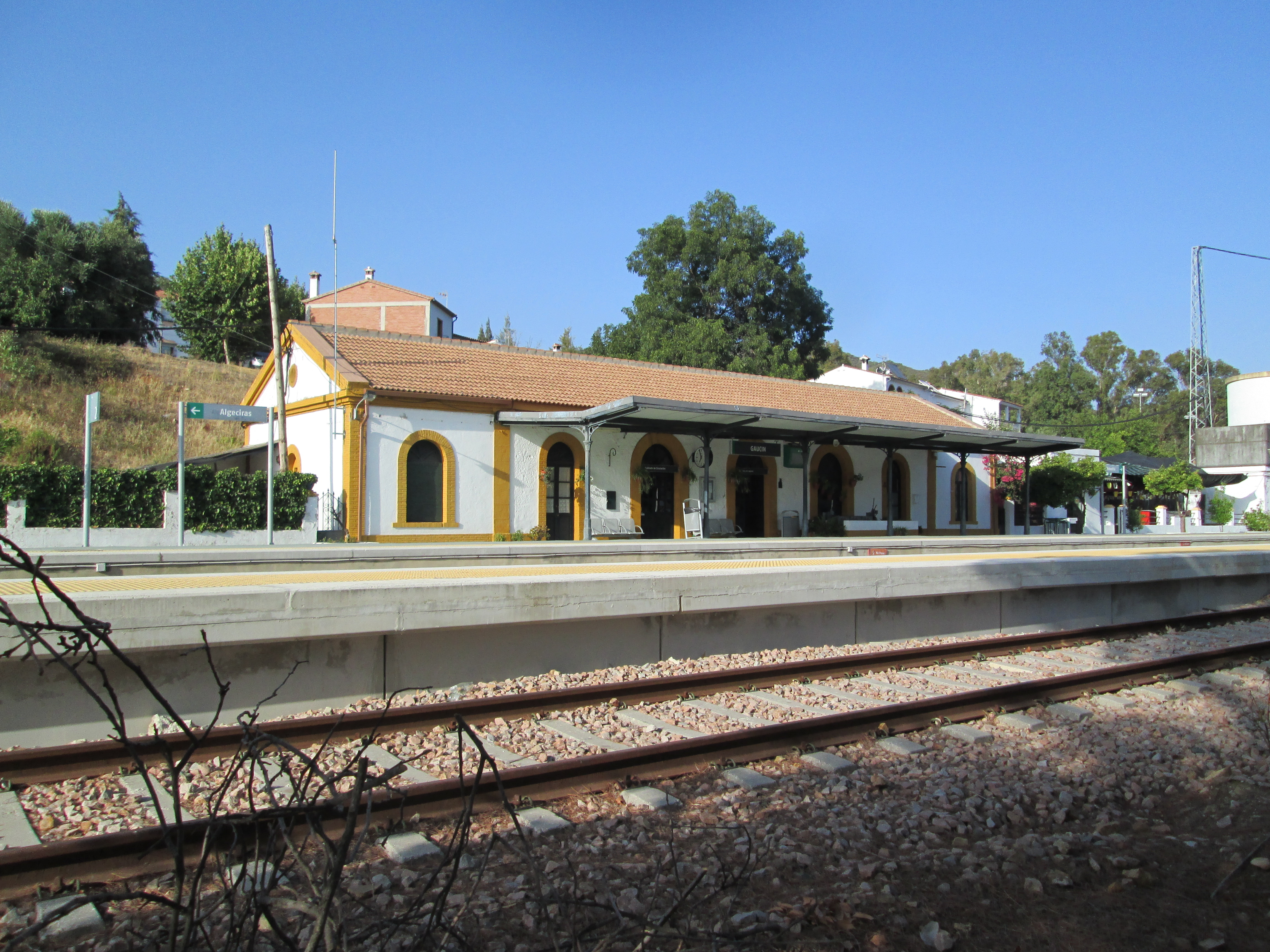 Estación de Gaucín